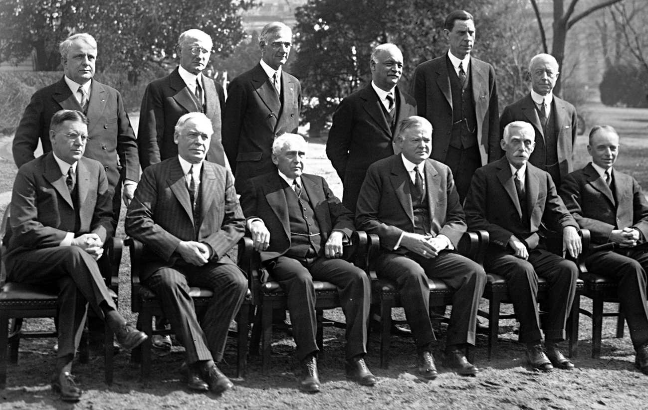 Cabinet of US President Herbert Hoover, seated out of doors on the White House lawn, Washington, D.C.